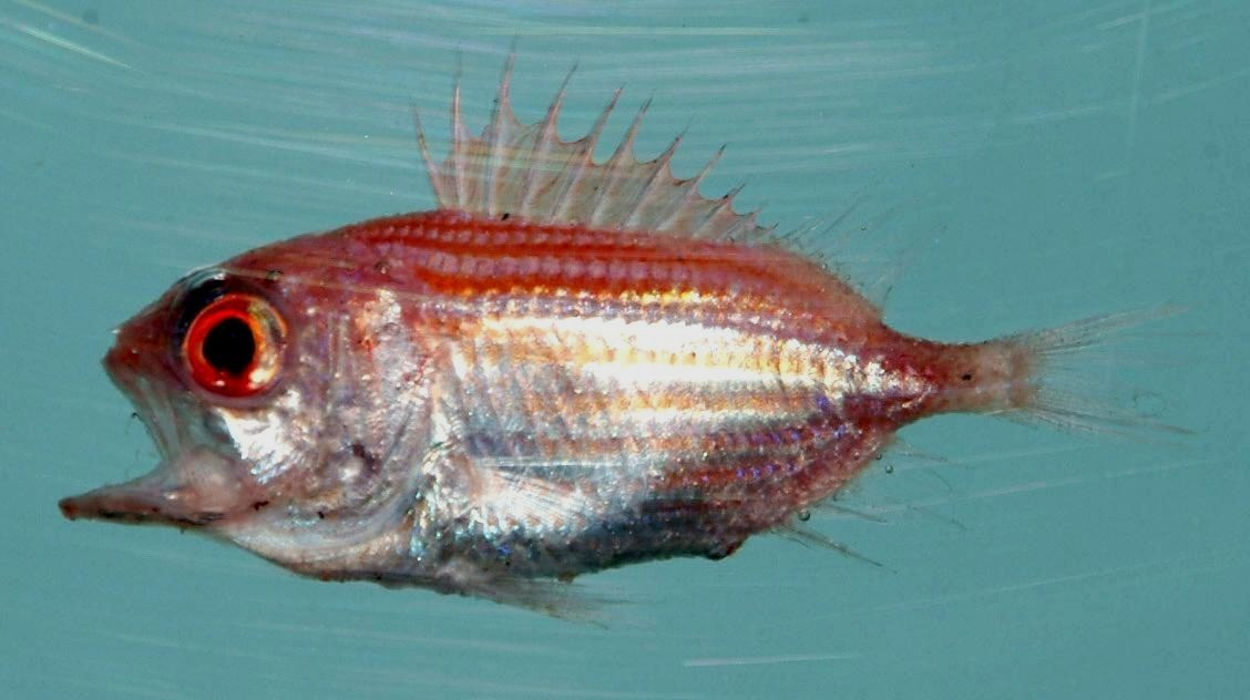 Juvenile bigeye soldierfish (Ostichthys trachypoma ). Gulf of Mexico.